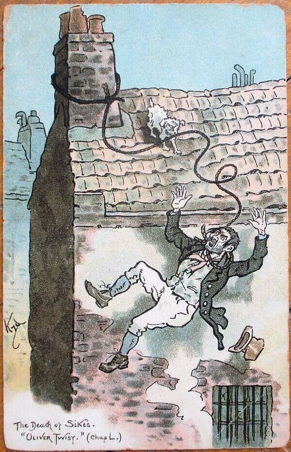 Death of Bill Sikes in 'Oliver Twist' - postcard painted by Joseph Clayton Clark (1857 — 1937) in 1905